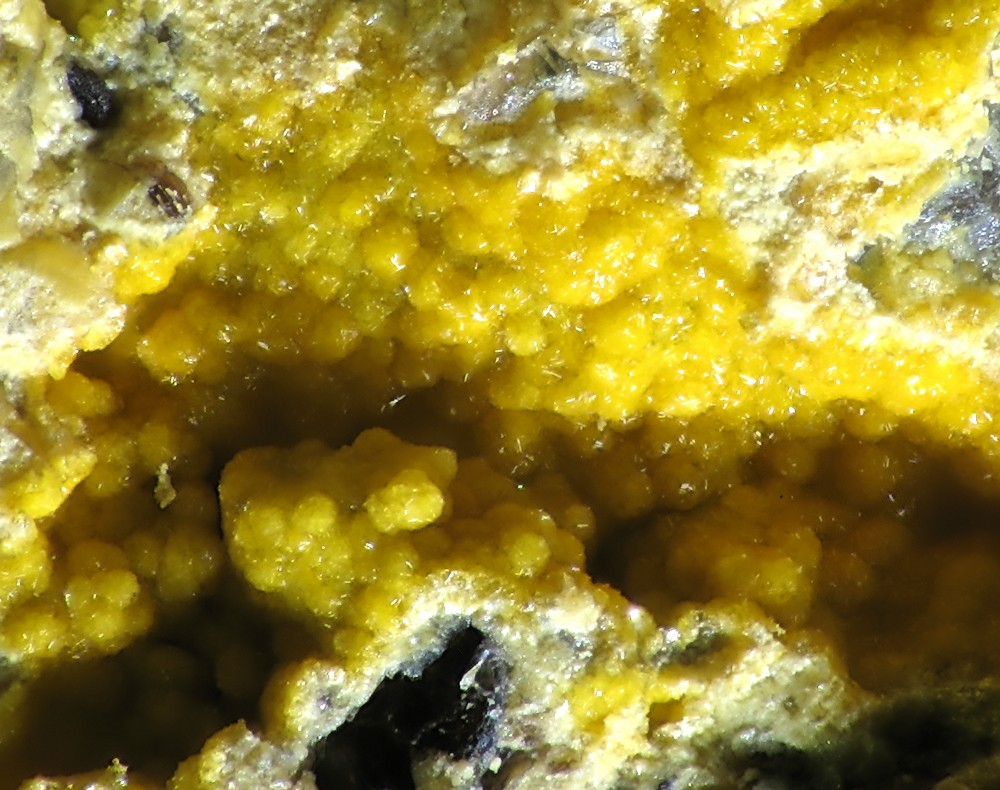 Paramendozavilite Locality: Cumobabi, La Verde District, Mun. de Moctezuma, Sonora, Mexico Picture width 3 mm. Collection and photograph Christian Rewitzer